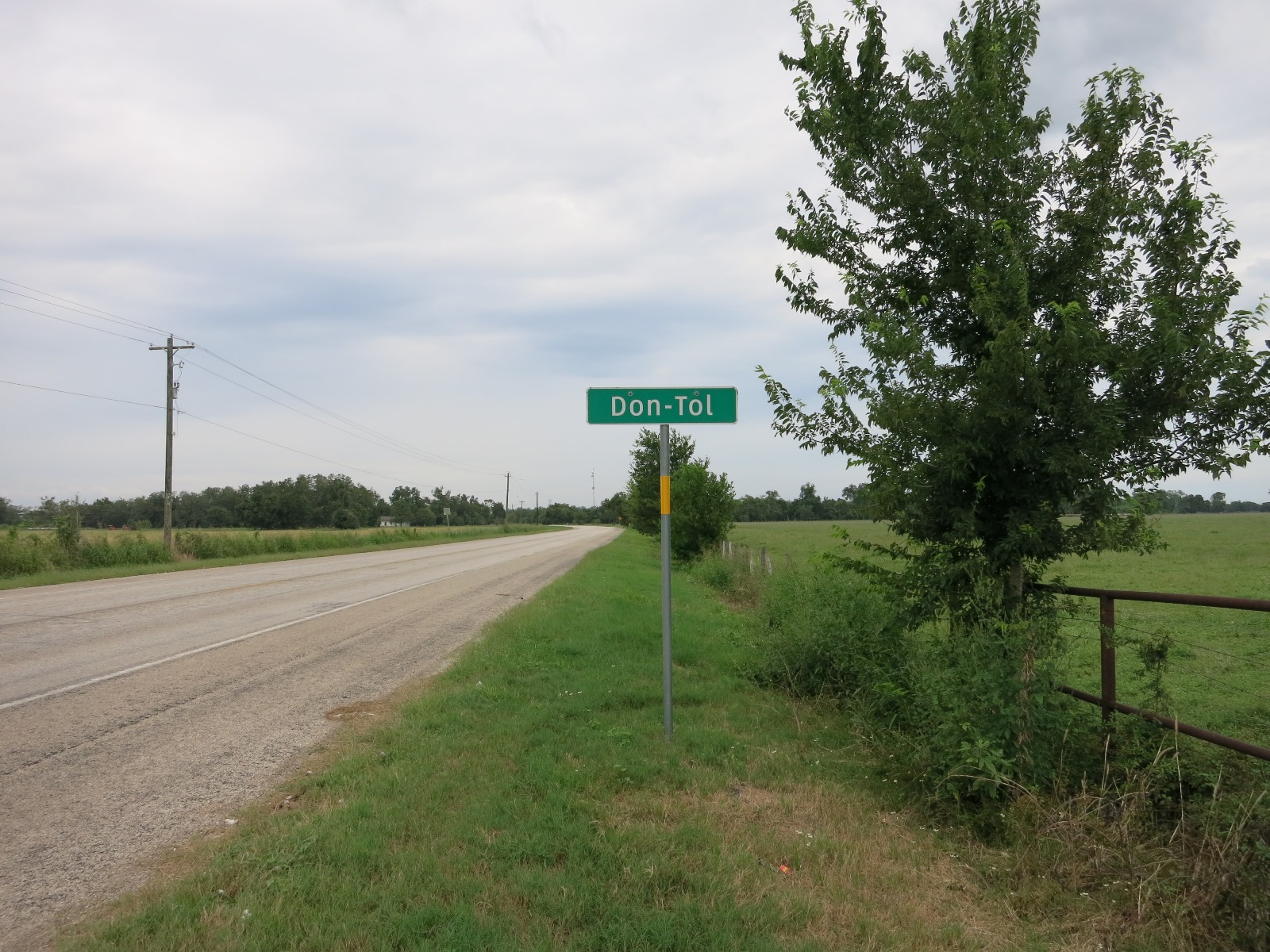 Photo shows the Don-Tol sign along Farm to Market Road 1301 at County Road 100 in Wharton County, Texas. The view is north along FM 1301.